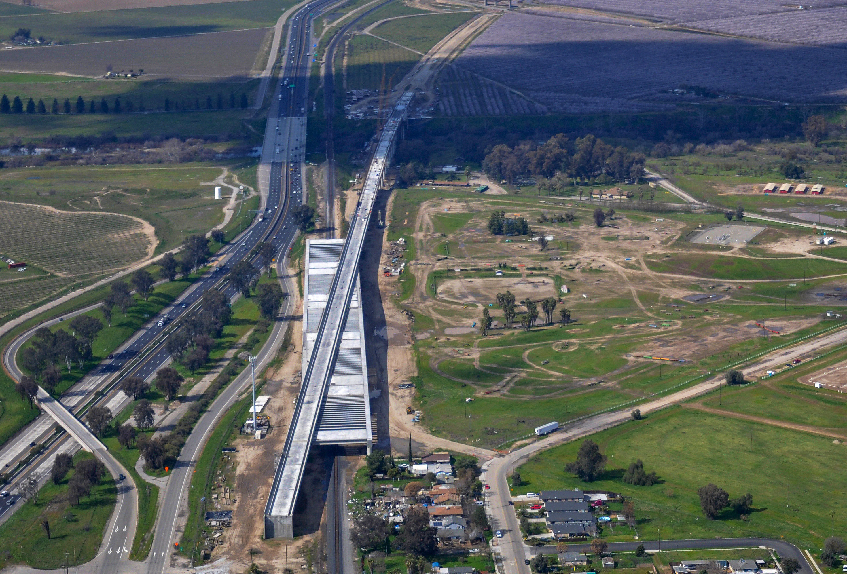 Aerial photograph of California High-Speed Rail's San Joaquin River Viaduct over the San Joaquin River in February 2019. Original caption: "At the San Joaquin River, crews are installing metal decking over the river, concrete super structure elements are being poured to the south of the river, and deck drainage is being installed on completed sections."